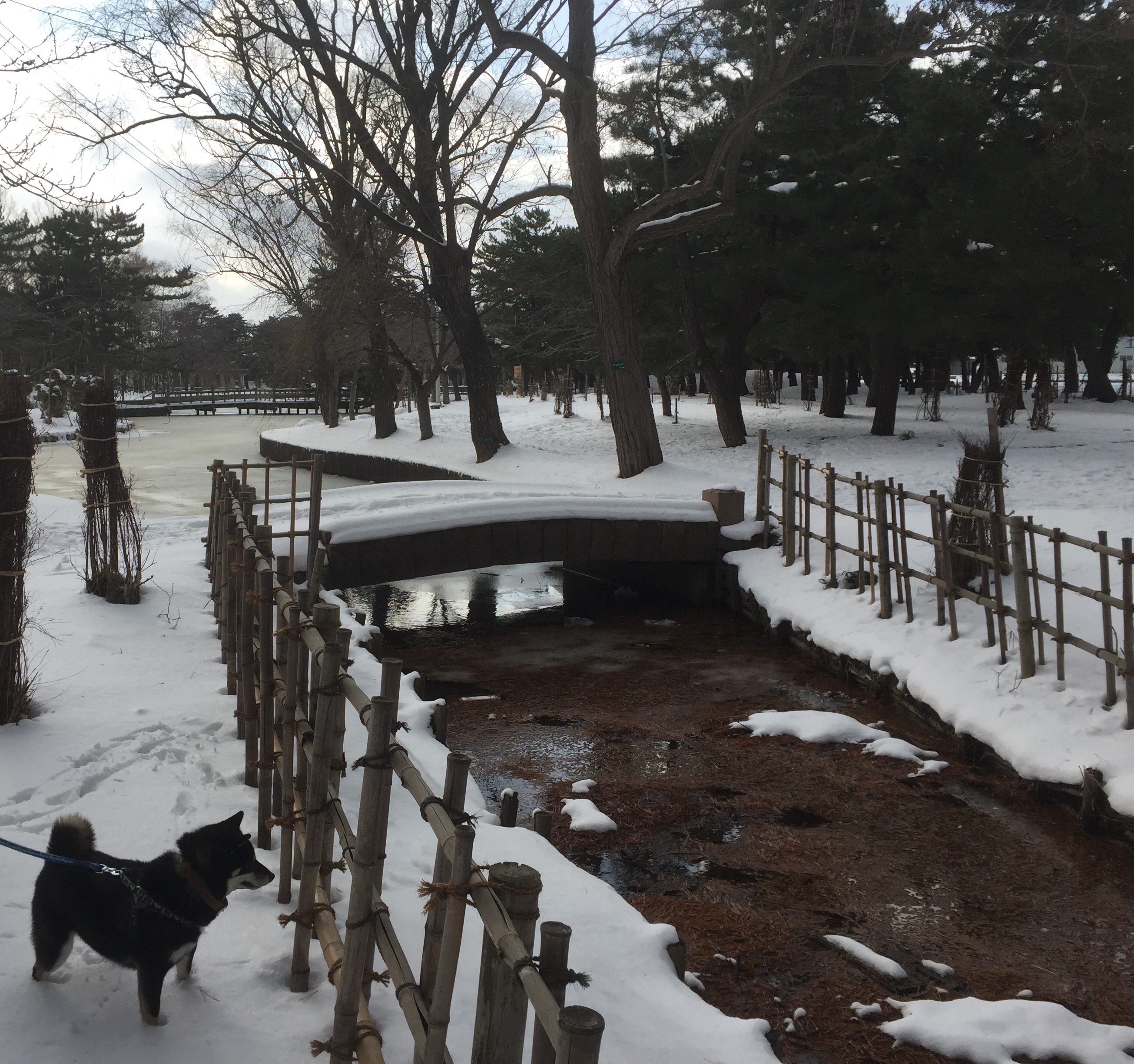 A Shiba Inu surveys the icy water at Gappo Park in Aomori